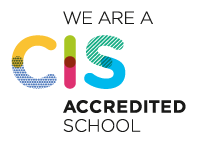 CIS